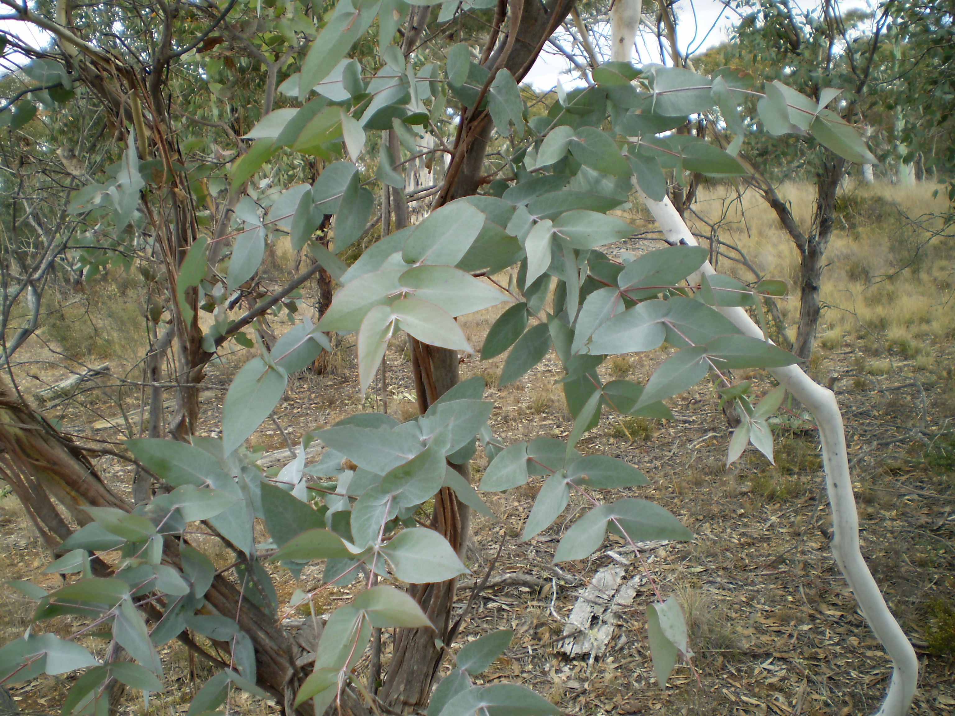 Juvenile leaf, Eucalyptus dives, peppermint gum, piperitone chemovar, Numeralla, New South Wales, Australia.